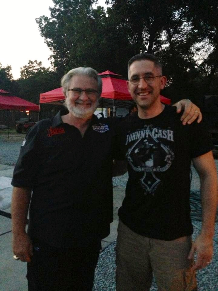 Taken during a BBQ course.